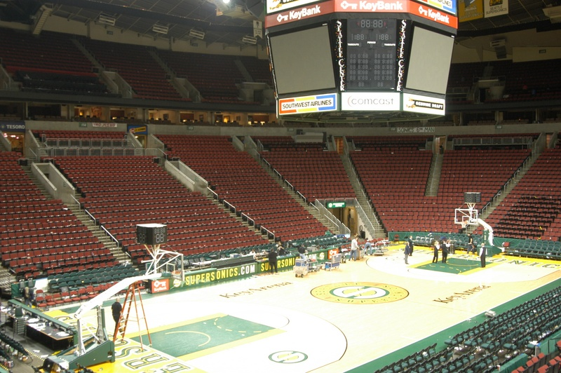 KeyArena, Seattle after a basketball game.Key Arena